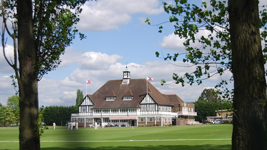 The pavilion at the HSBC Sports and Social club, Beckenham - formerly the Midland Bank Sports Ground